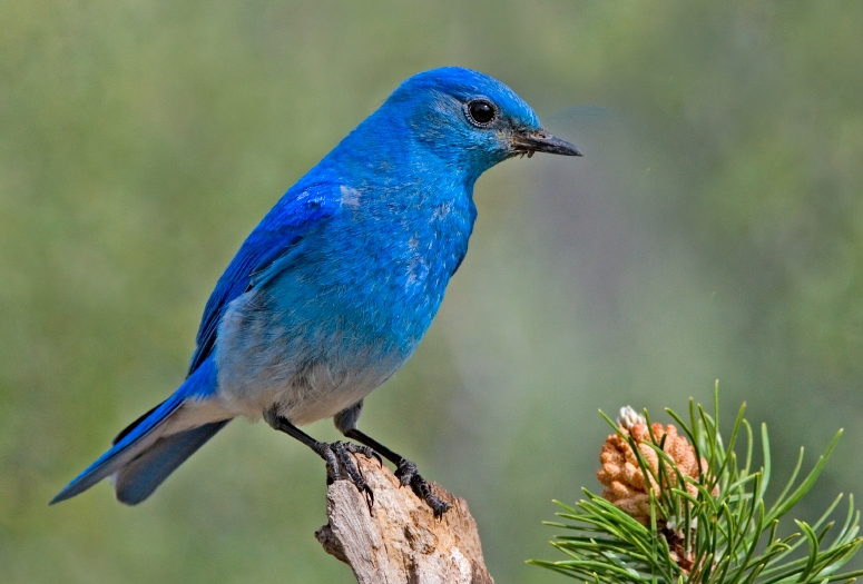 Sialia currucoides - Mountain Bluebird, Cabin Lake Viewing Blinds, Deschutes National Forest, Near Fort Rock, Oregon